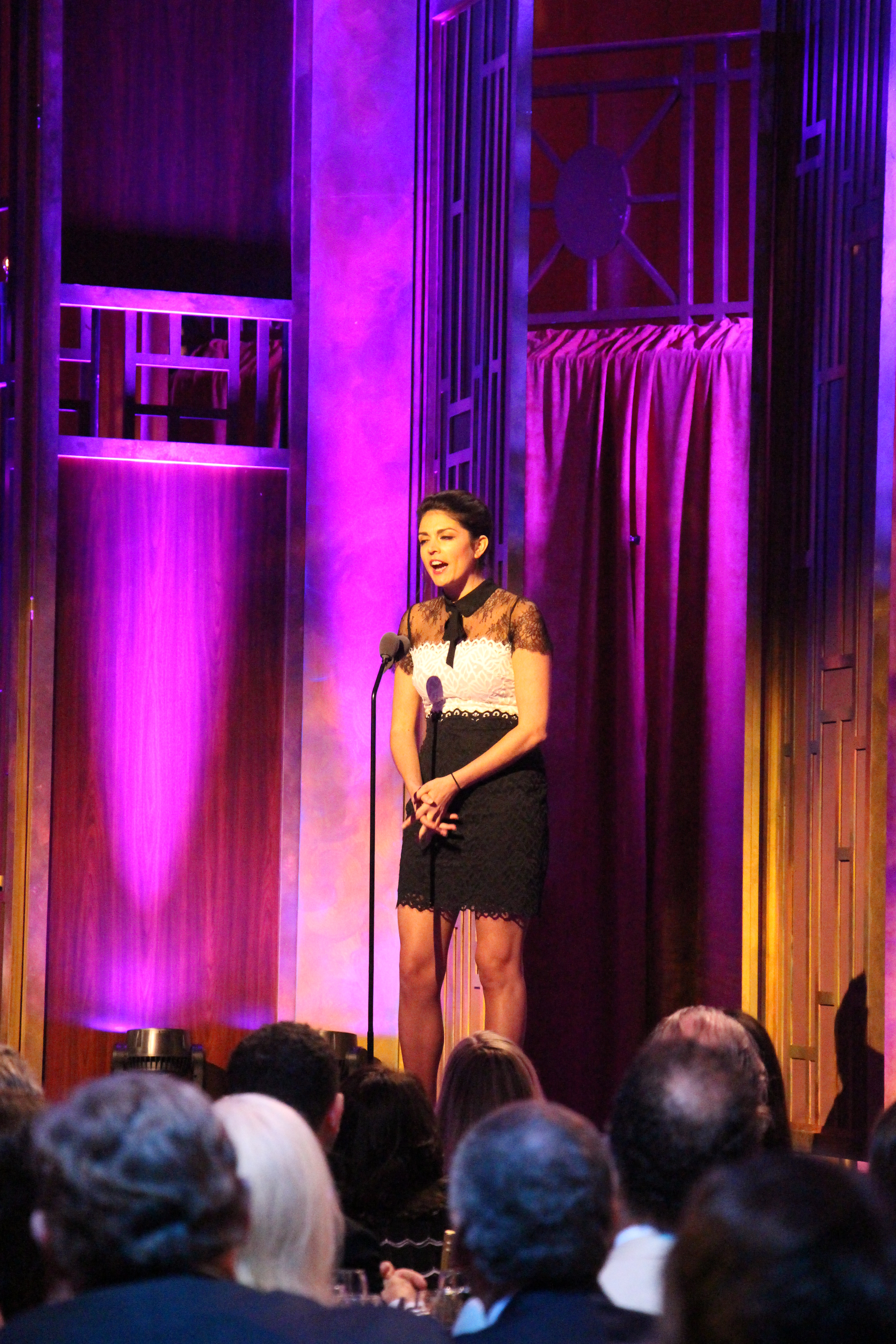 Cecily Strong presents the Peabody to Serial.